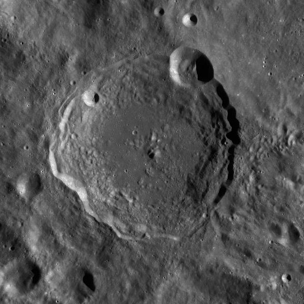 LRO image of Ioffe crater, on the far side of the moon, from the Wide Angle Camera (WAC).